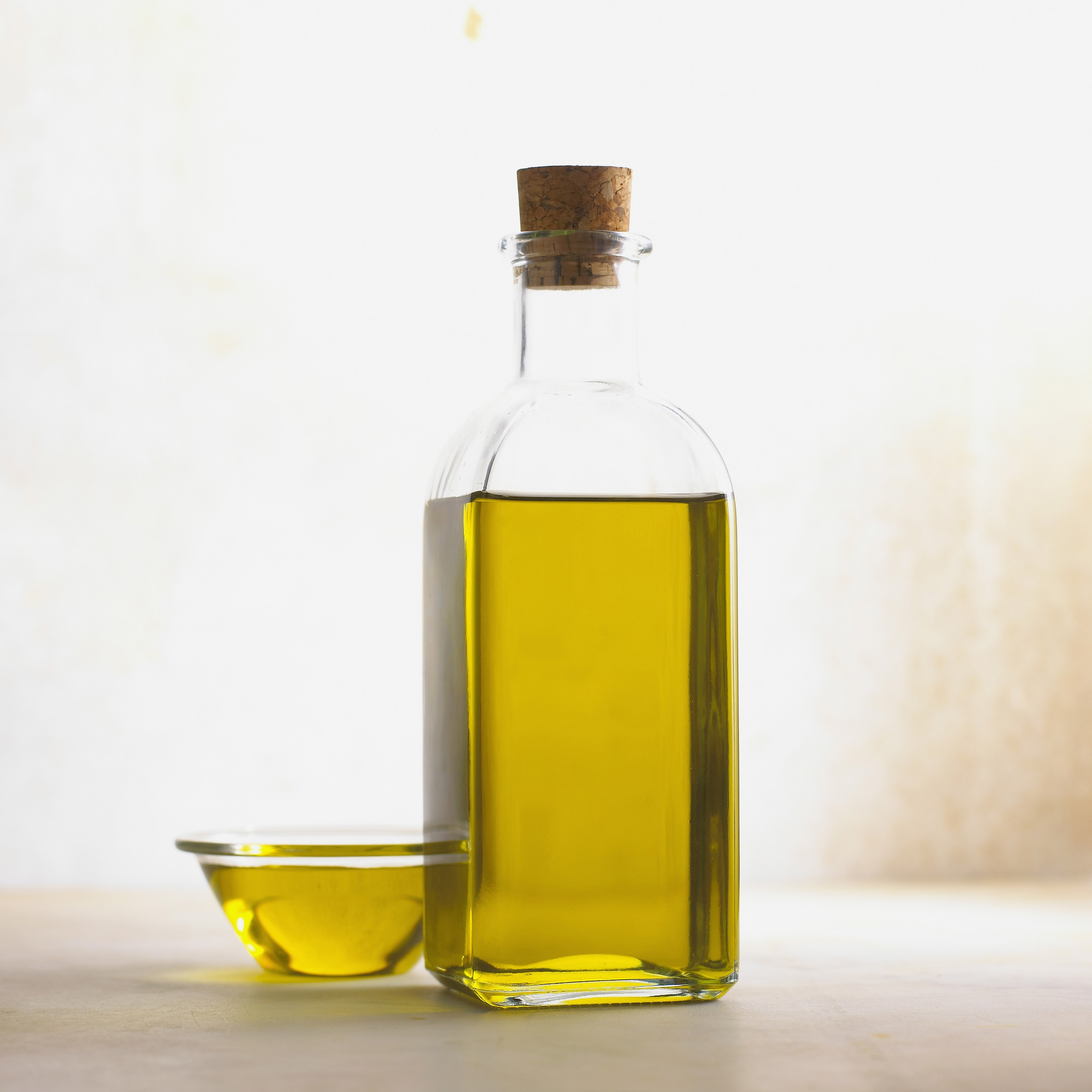 A glass bottle of olive oil